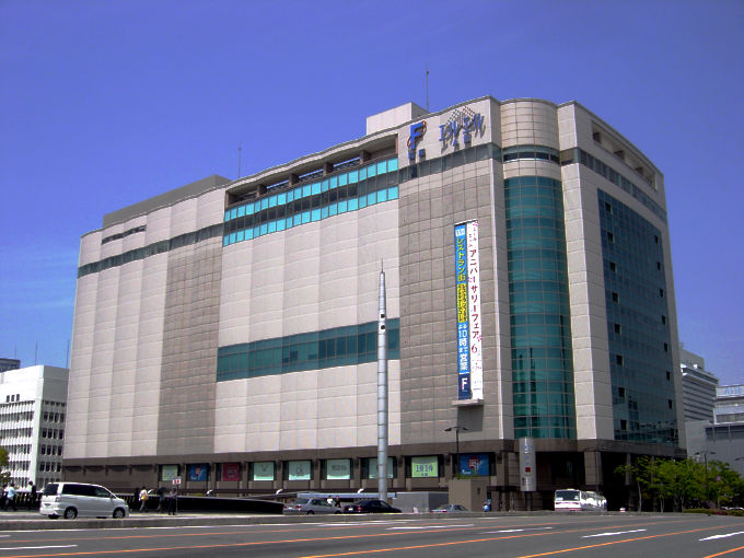 Fukuya Hiroshima Ekimae Store, a department store in Hiroshima, Hiroshima Prefecture, Japan.